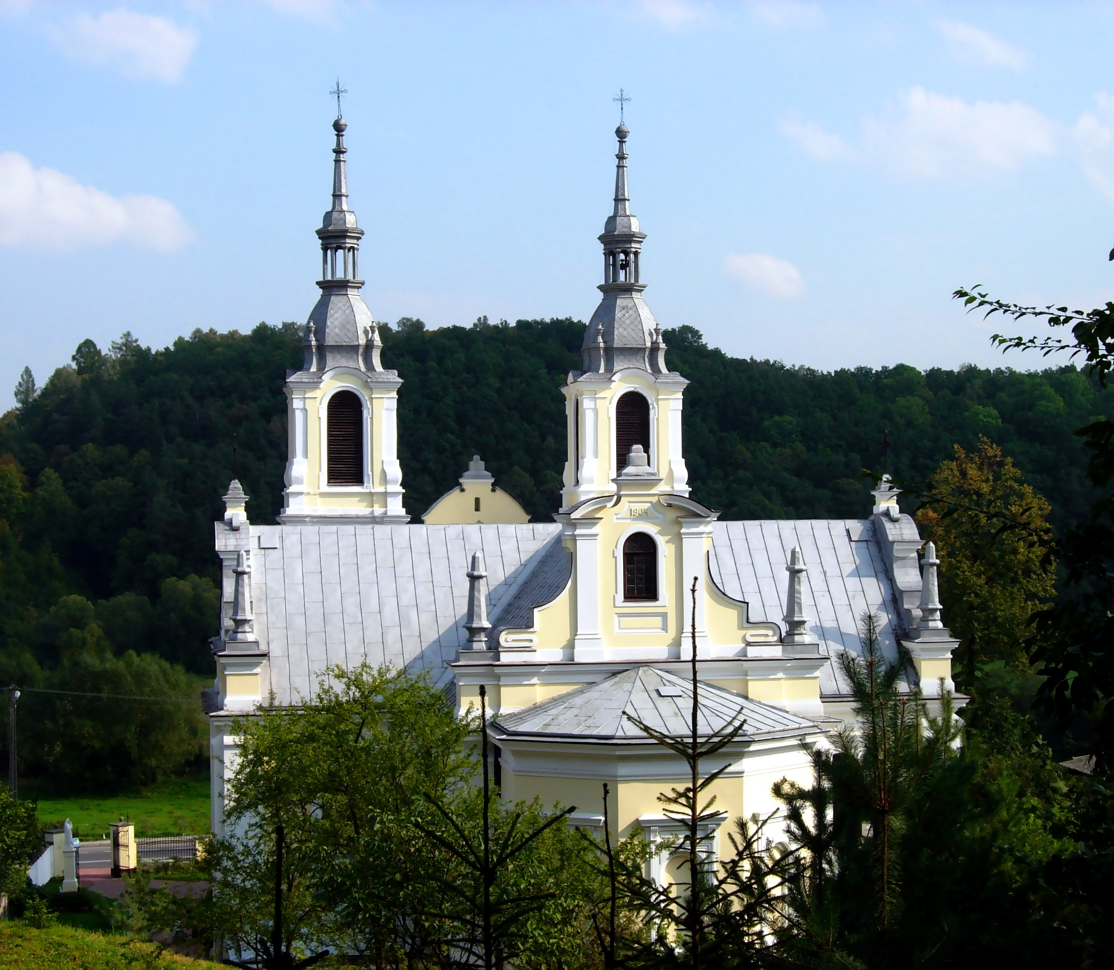 The church in Bałtow, Poland